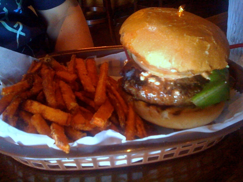 The Black Buffalo Burger from Black Sheep Lodge in Austin, Texas.